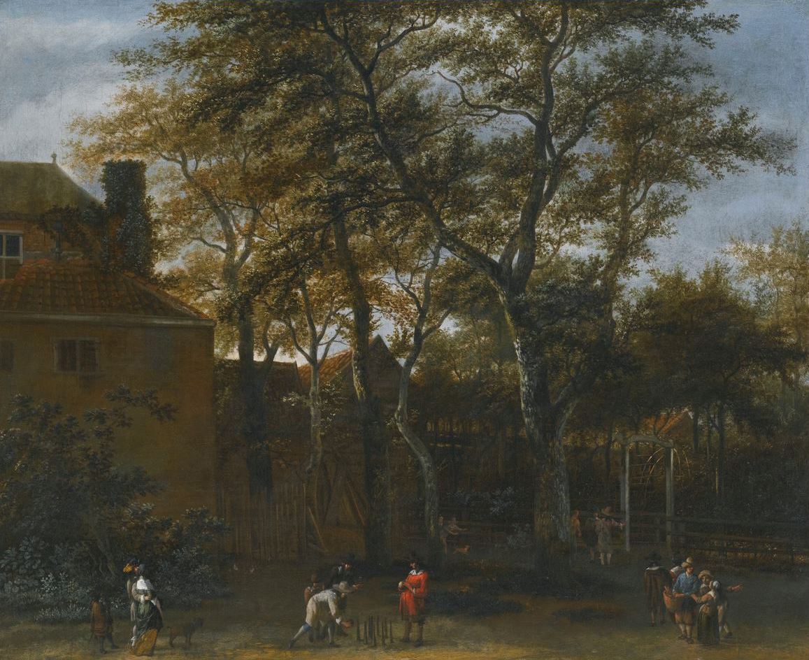 "Four men playing Skittles in a garden, with onlookers", oil on canvas, 55.7 by 68 cm.; 22 by 26 3/4 in.